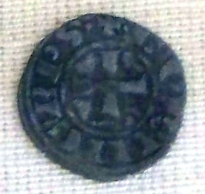 Coin grom Clarentia (Glarentza in Peloponnesos) cut during the reign of Godfrid Villearduine (Geoffrey of Villehardouin in English, Geoffroi de Villehardouin in French). National Historical Museum, Athens, Greece.